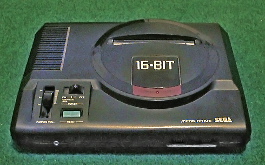 An Asian PAL Sega Mega Drive - it looks like an original Japanese one but it isn't, f.e. the ring imprint is missing here.